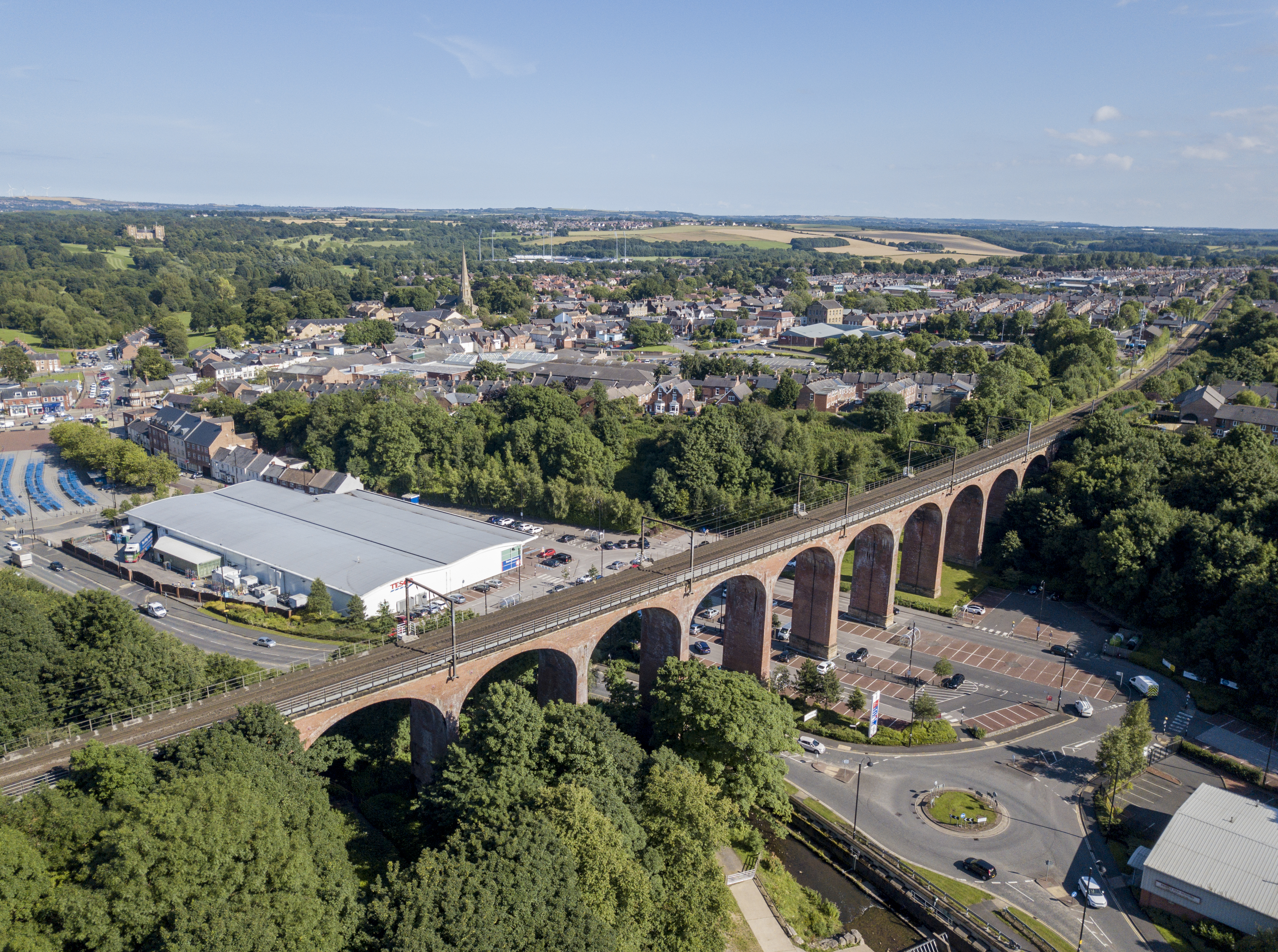 Railway Viaduct Over Chester Burn Wikidata has entry Q26452743 with data related to this item.